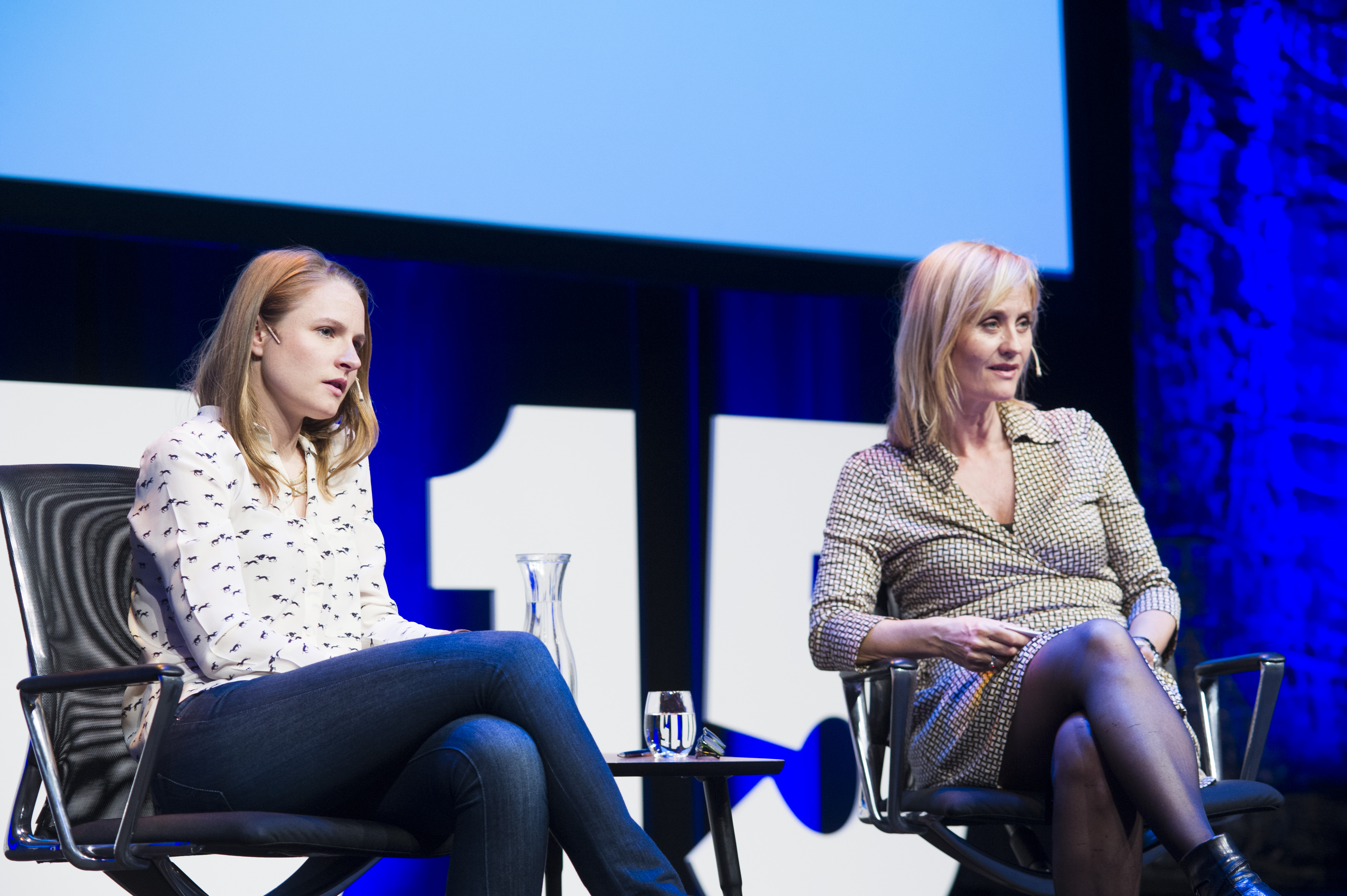 Serial podcast producer Dana Chivvis (left) and Norwegian journalist Hege Duckert in 2015